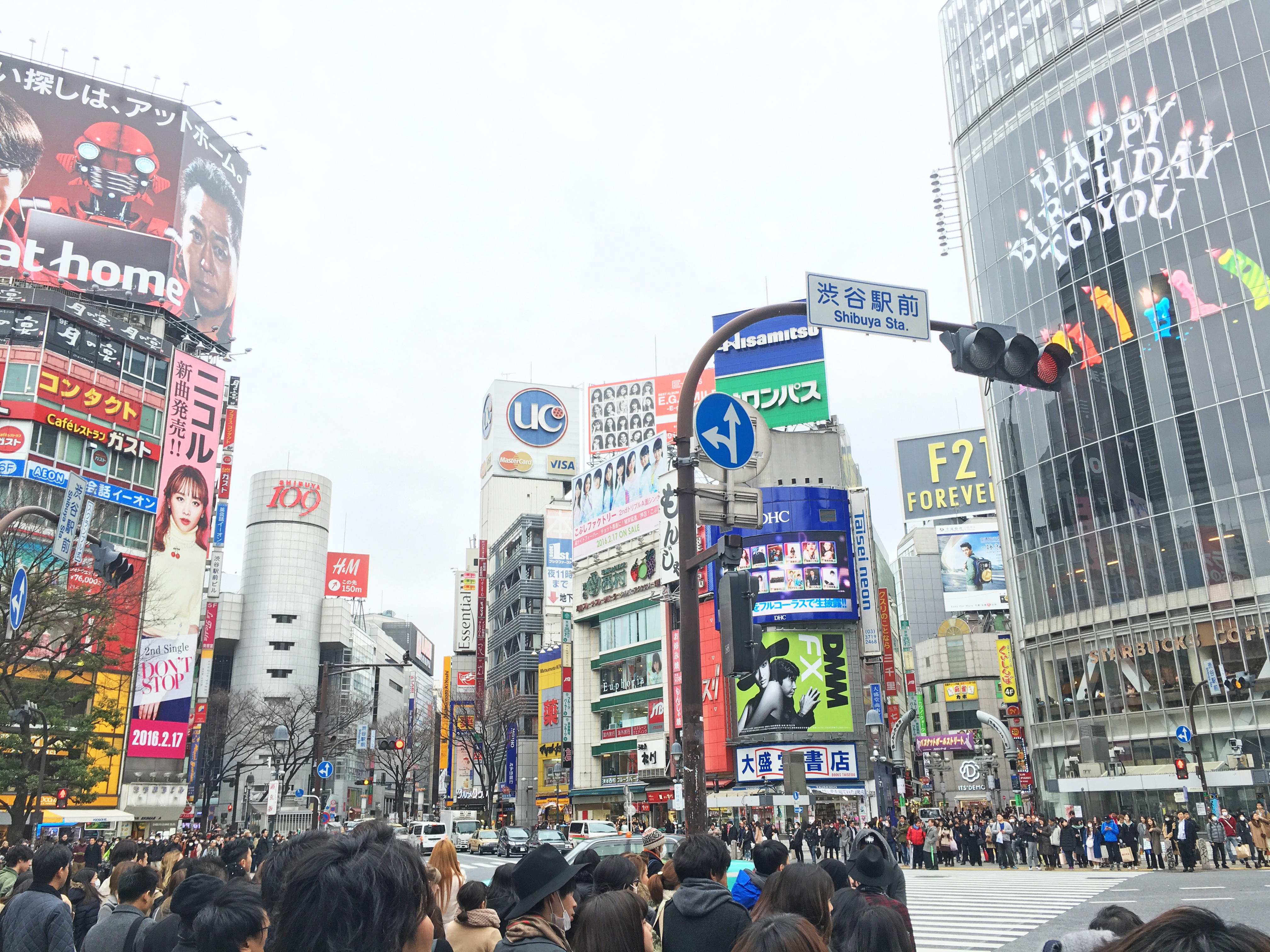 Shibuya crossing